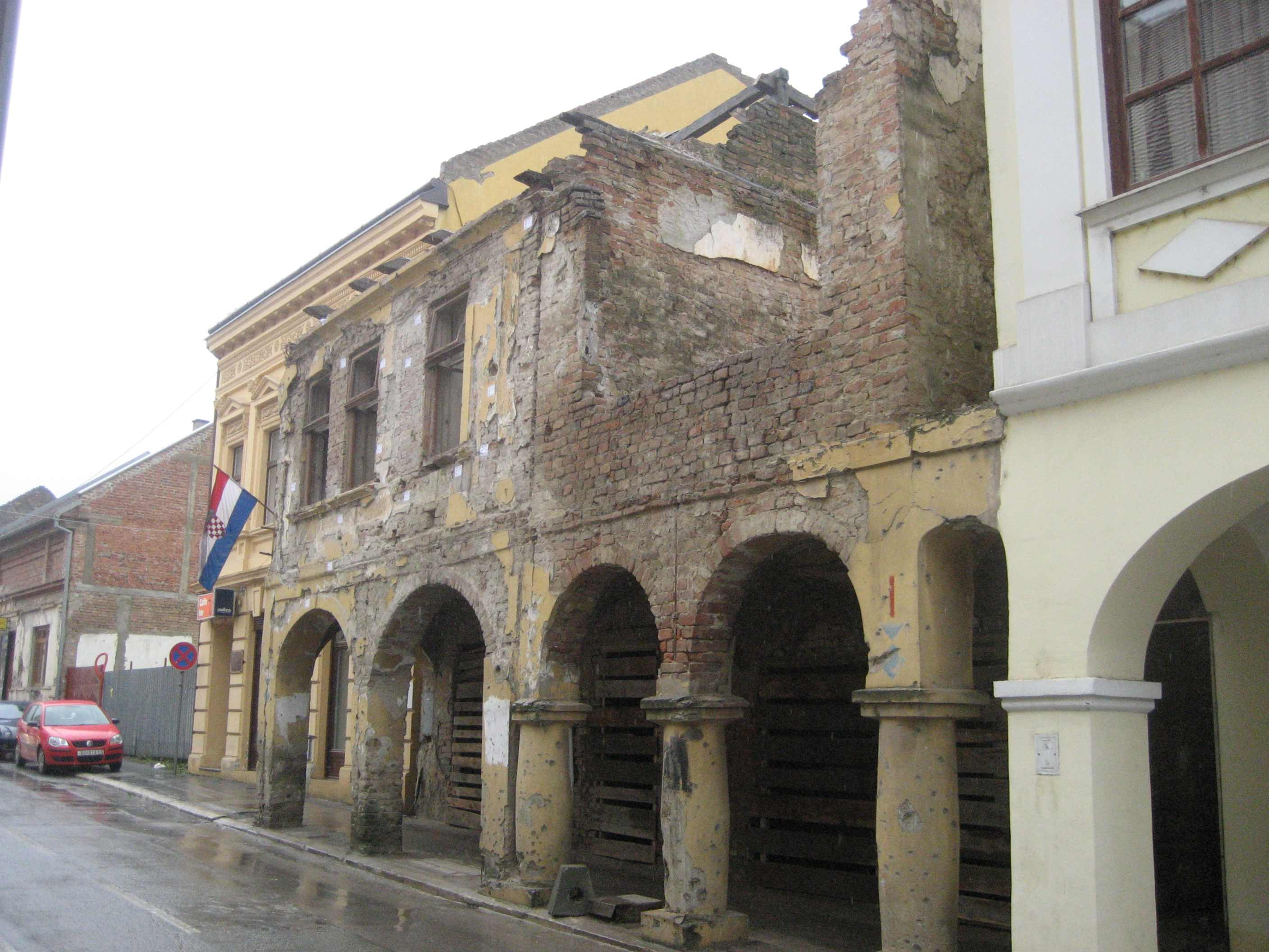 Main street in Vukovar, Croatia - damaged building; a remains of military clashes from 1991